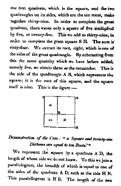 A page from The Algebra of Mohammed ben Musa by Fredrick Rosen.